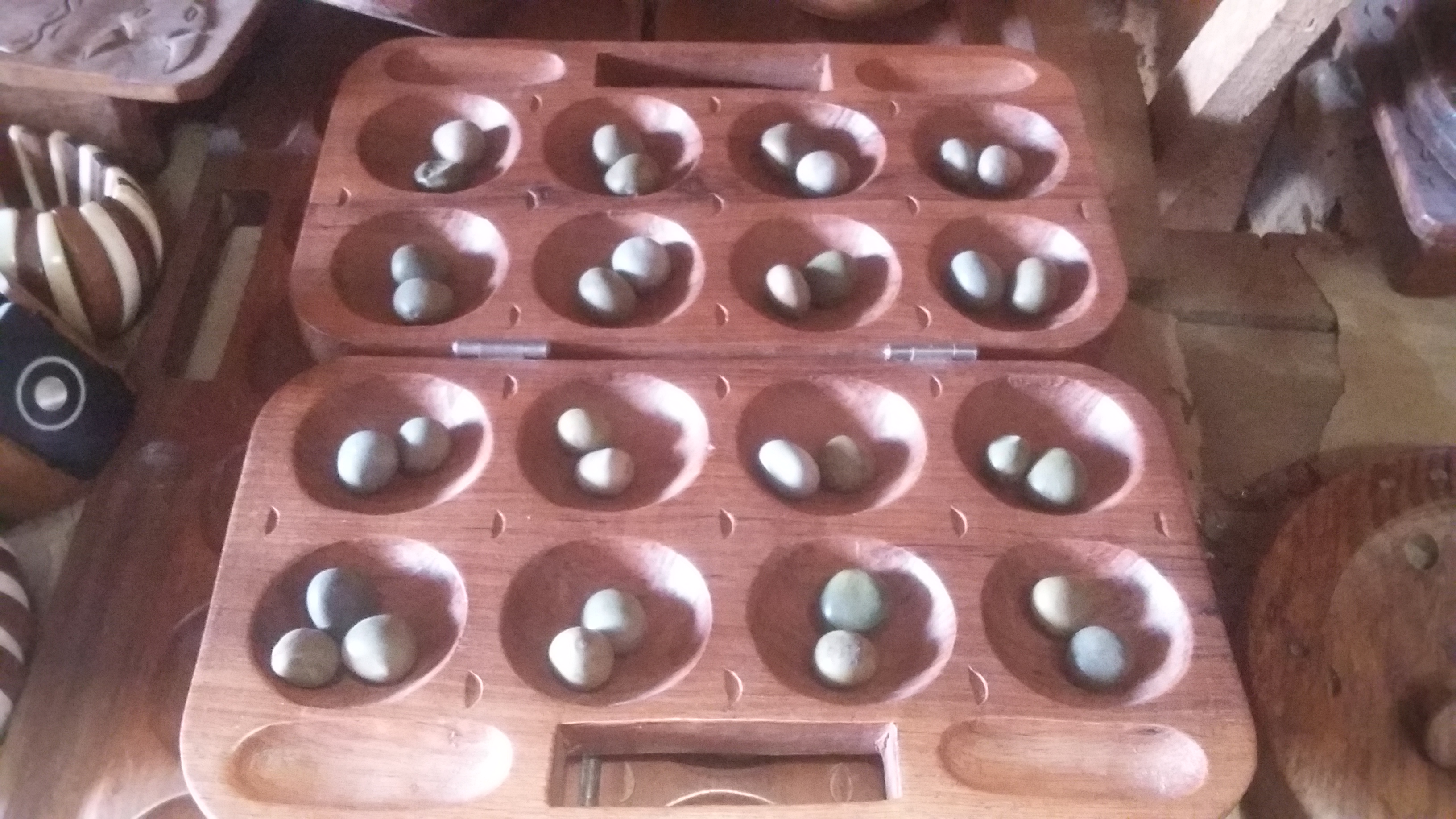 Katro is a game native to Africa but widely spread in Madagascar. It's for two players. This is an image with the theme "Play" from: Madagascar